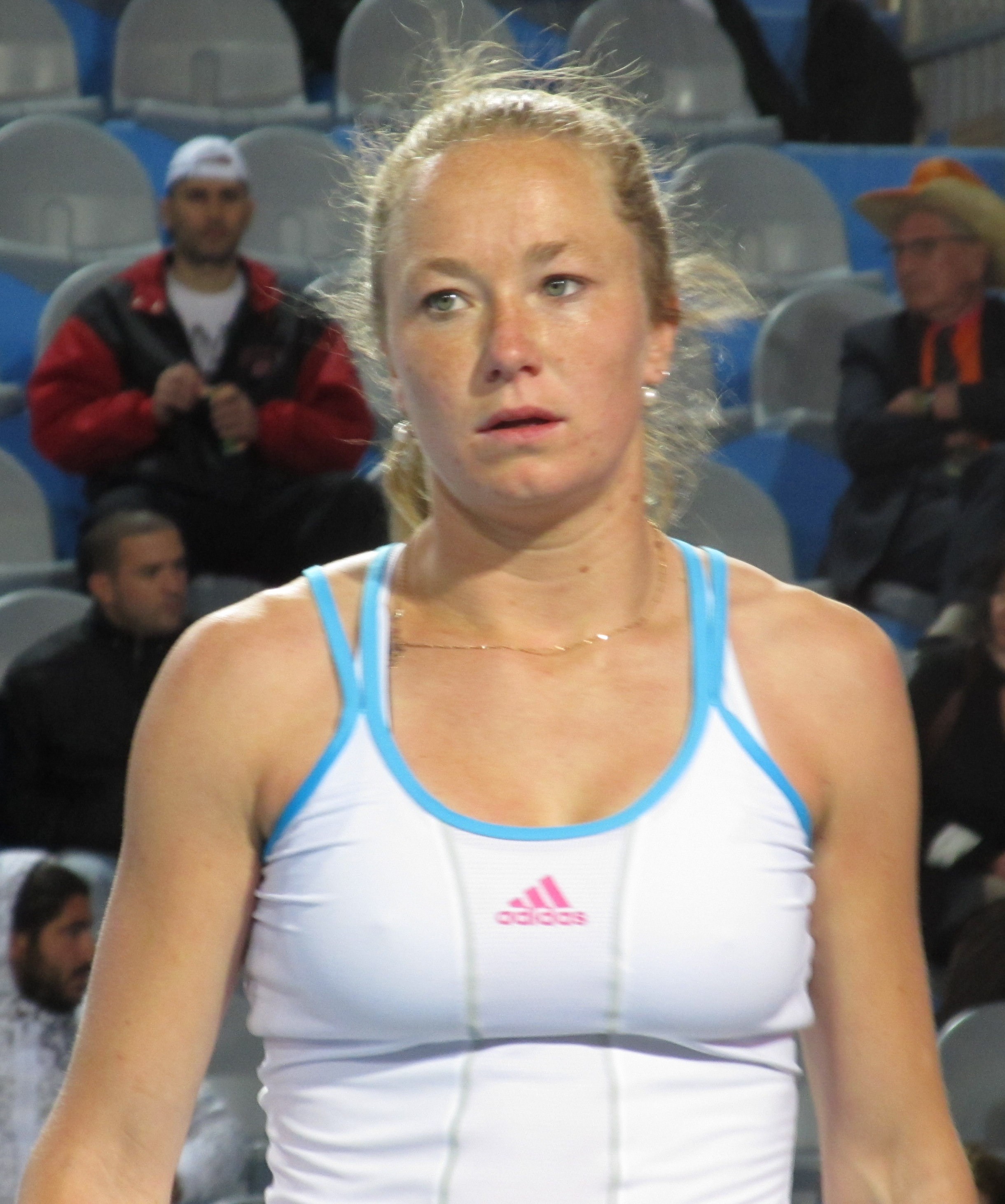 The tennis player Julia Glushko of Israel during her match against Bibiane Schoofs of the Netherlands in the 1st day of Fed Cup Group I 2012 Europe/ Africa in Eilat, Israel